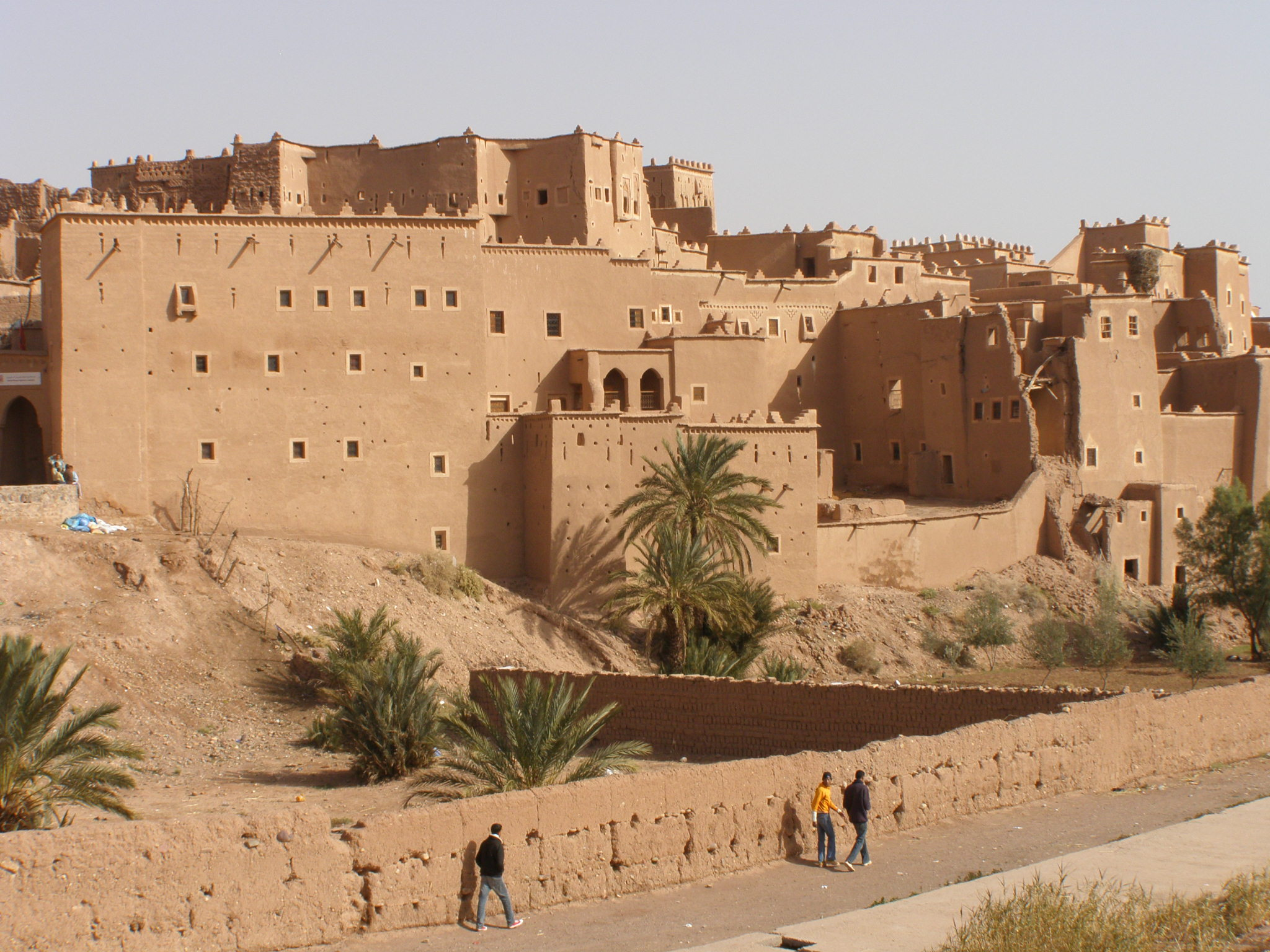 Ouarzazate old town (medina)